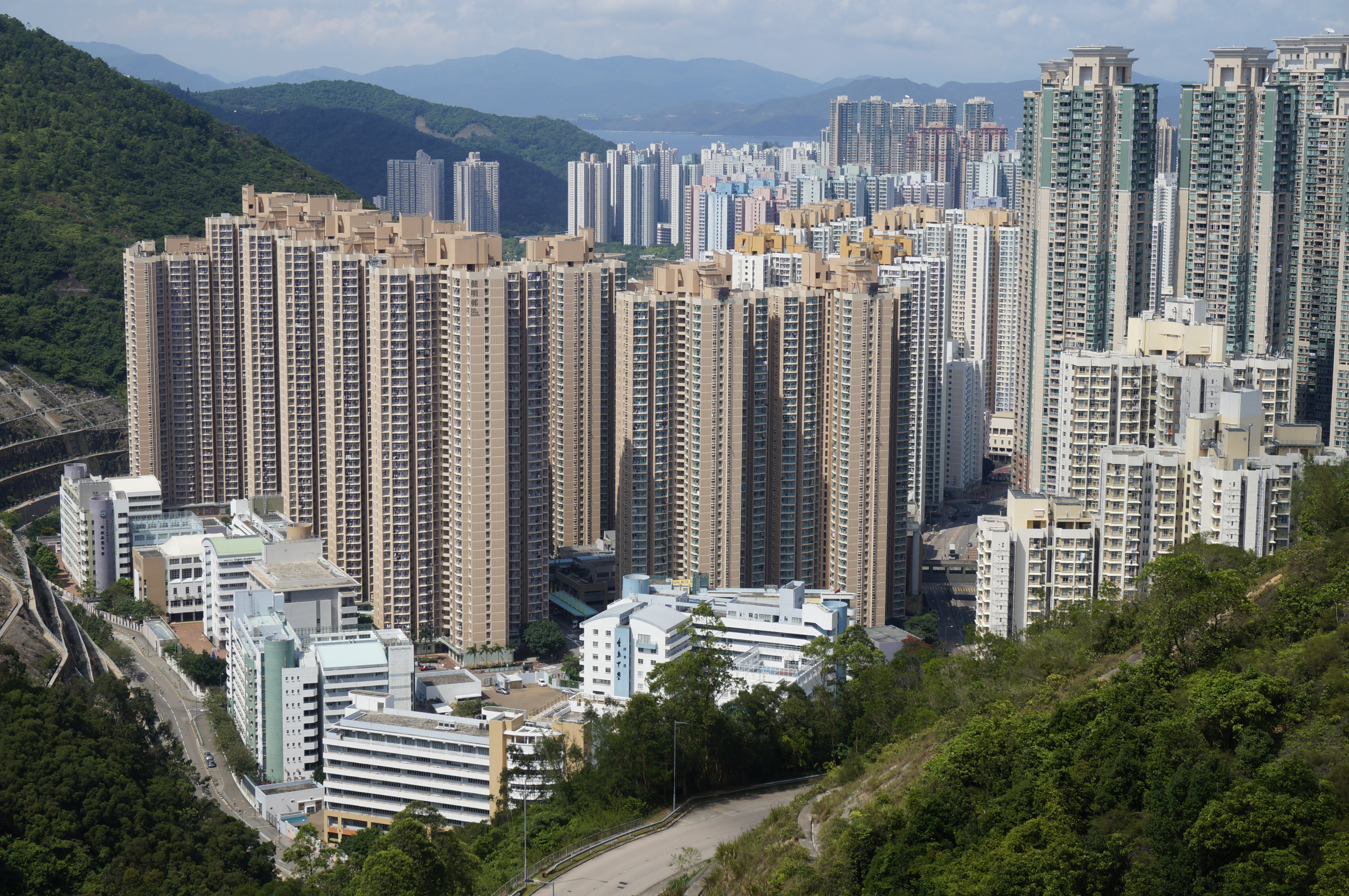 Kin Ming Estate